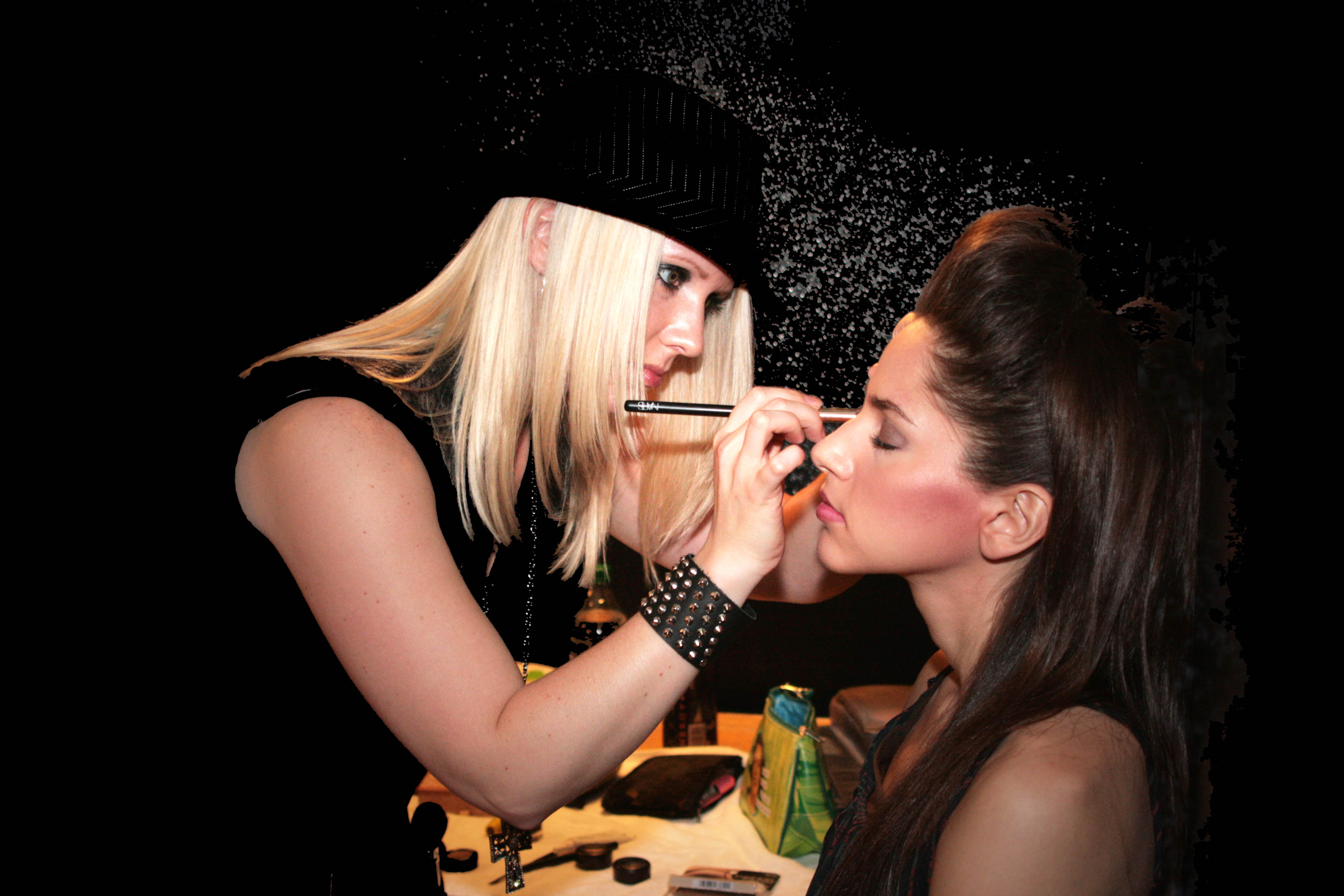 Makeup Artist Jessica Mae with International Model, Taylor Skye.